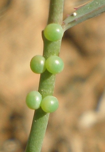 Near Tàrrega, Lleida, Catalonia. On Euphorbia serrata.